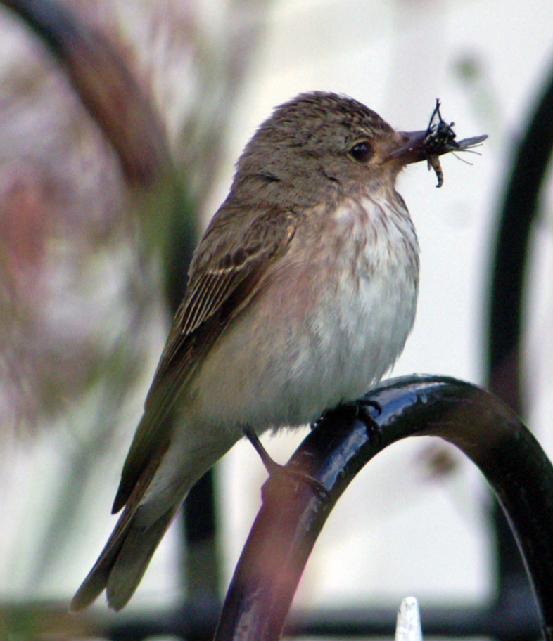 Spotted Flycatcher Muscicapa striata, Pumpsaint, Carmarthenshire, Wales